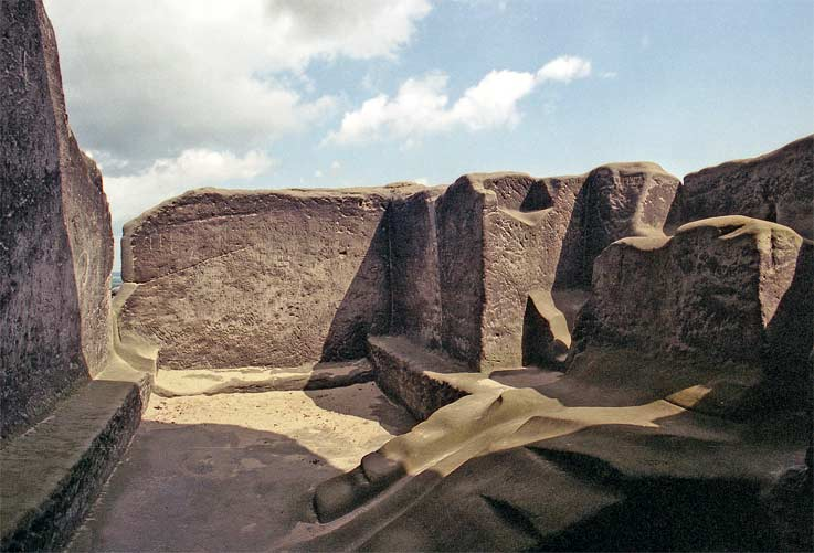 Drábské světničky rock castle near Mnichovo Hradiště, Czech Republic. Remains of so called Castle chapel.